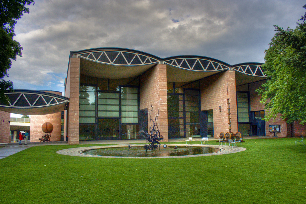 Tinguely Museum Designed by: Mario Botta Year:1996 Location: Basel (CH)